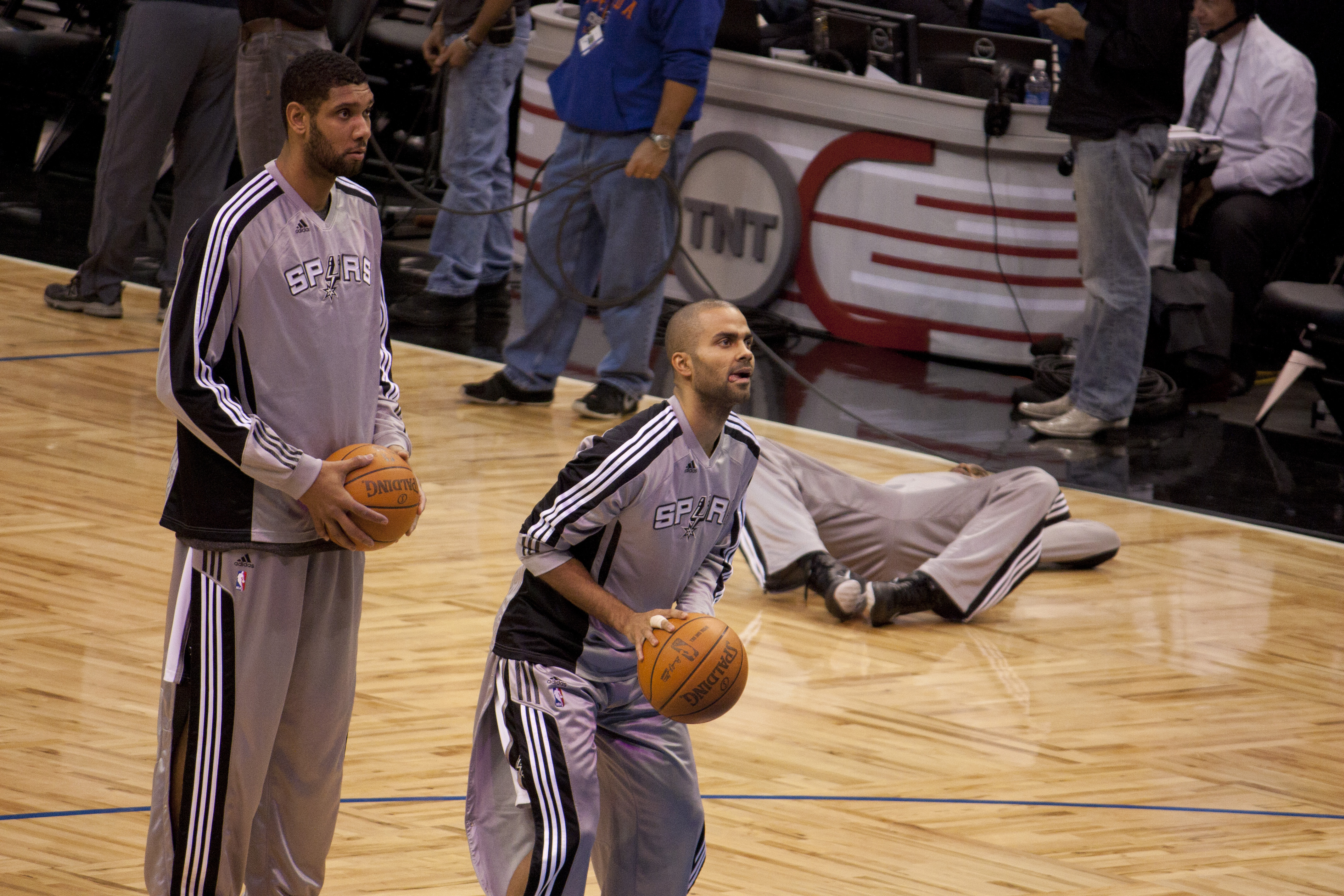 Before Spurs vs Magic in Orlando, Florida, December 2010.